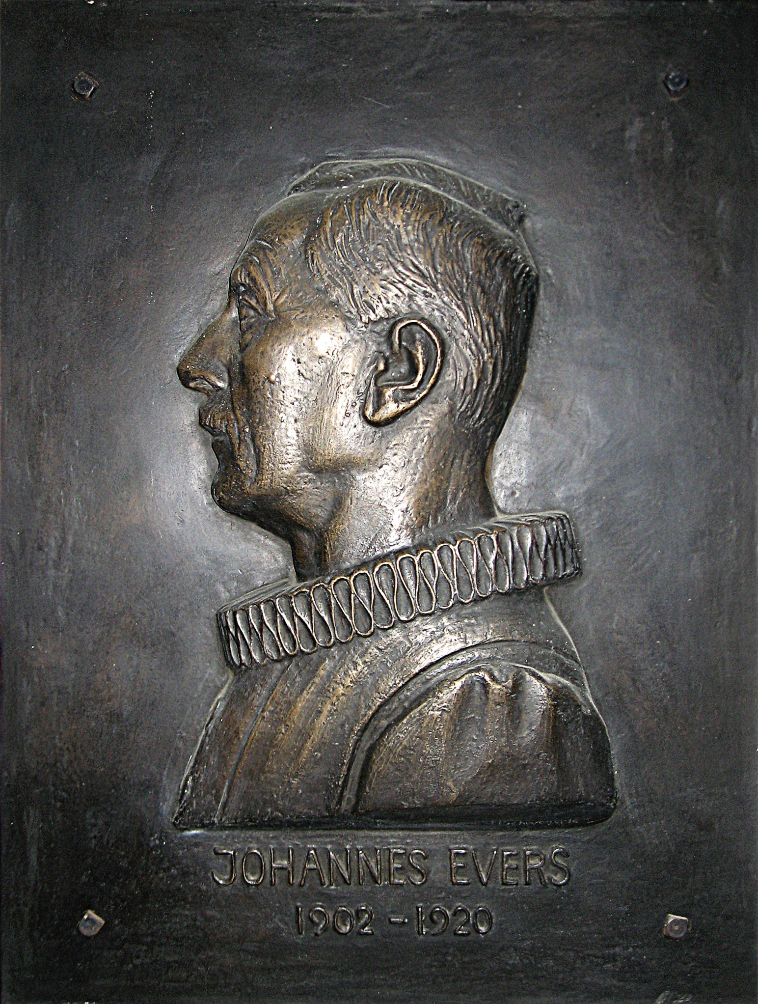 Johannes Evers (1859-1945), the first pastor of St. Gertrude Church in Lübeck from 1902 to 1920. The relief is in the church hall on the right exterior wall.